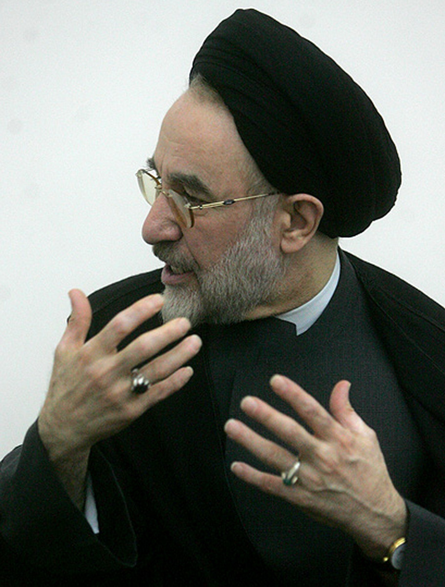 Mohammad Khatami - August 28, 2006